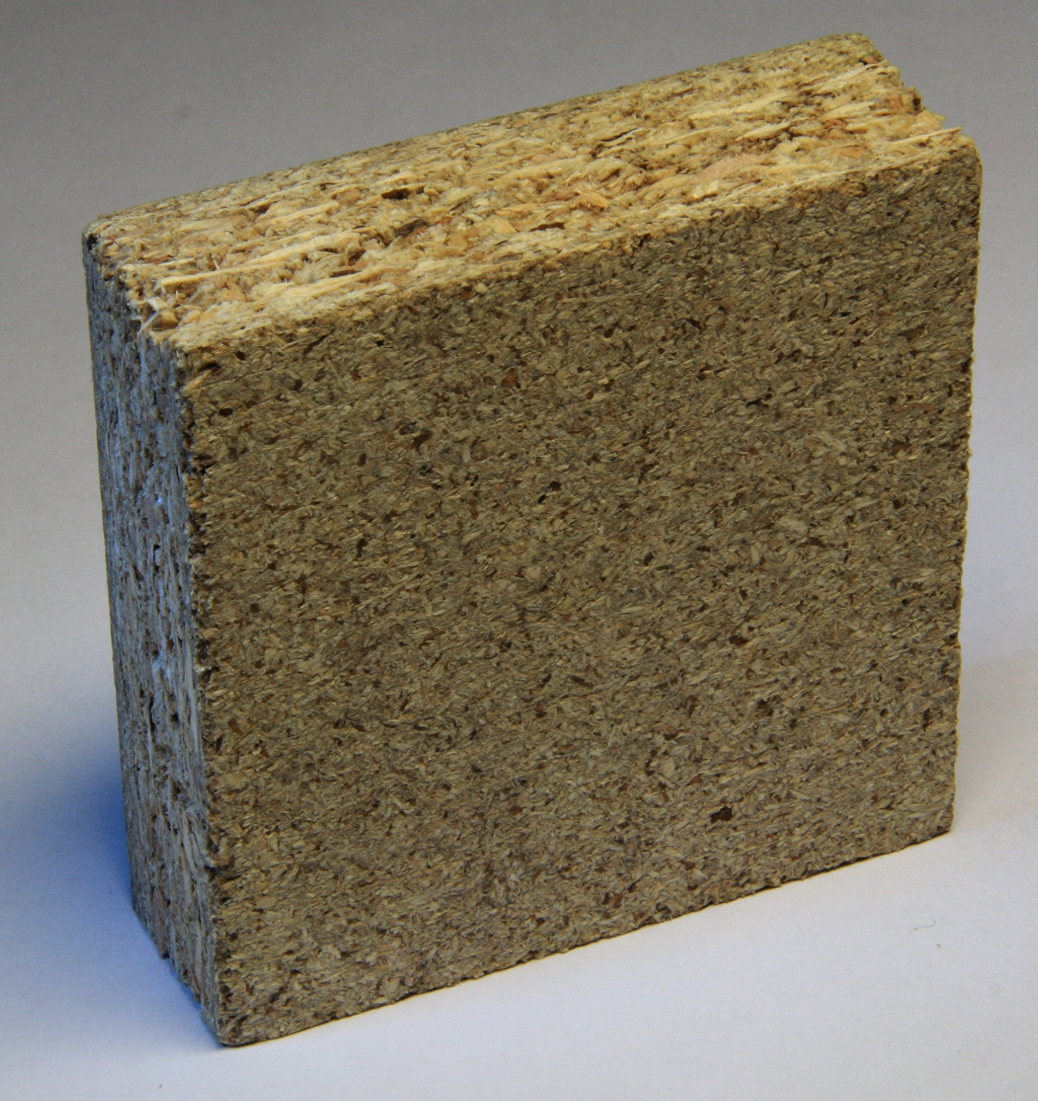 A small piece of a particle board